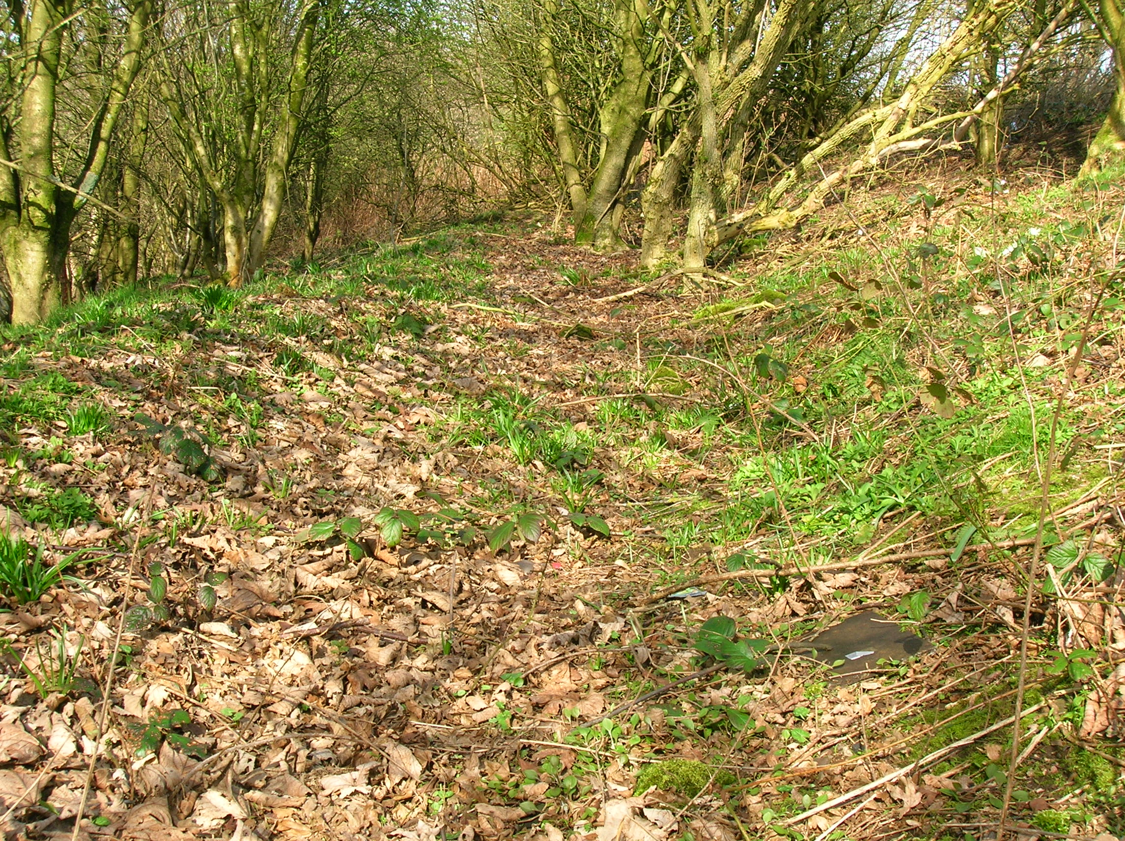 A section of the path network at Higgins House, Irvine, North Ayrshire, Scotland